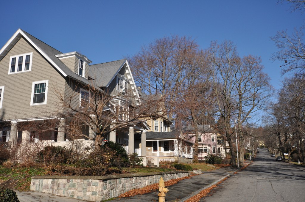 Germain St. (looking roughly north from the southern end, at the west side) in the Hammond Heights neighborhood of Worcester, Massachusetts.